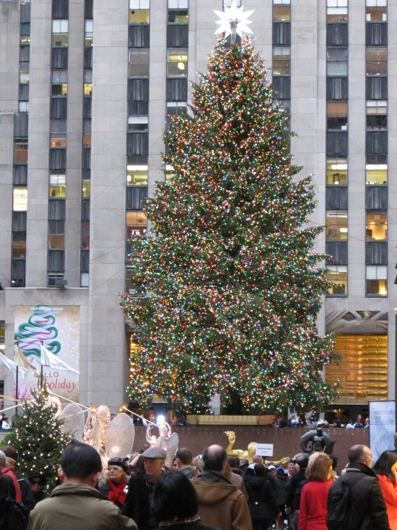 Manhattan, New York City